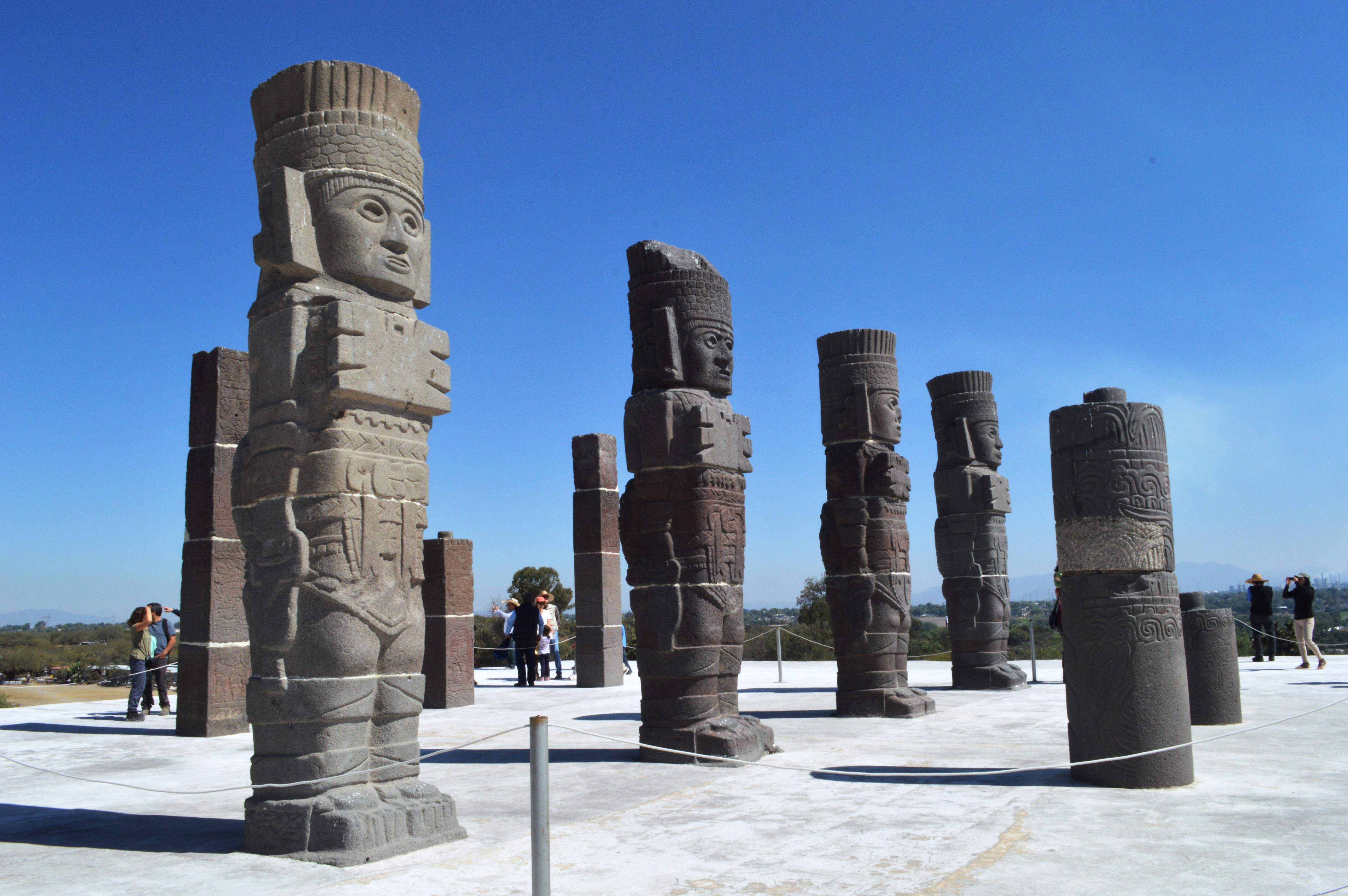 Atlantes of Pyramid B at the Tula archeological site in Hidalgo, Mexico